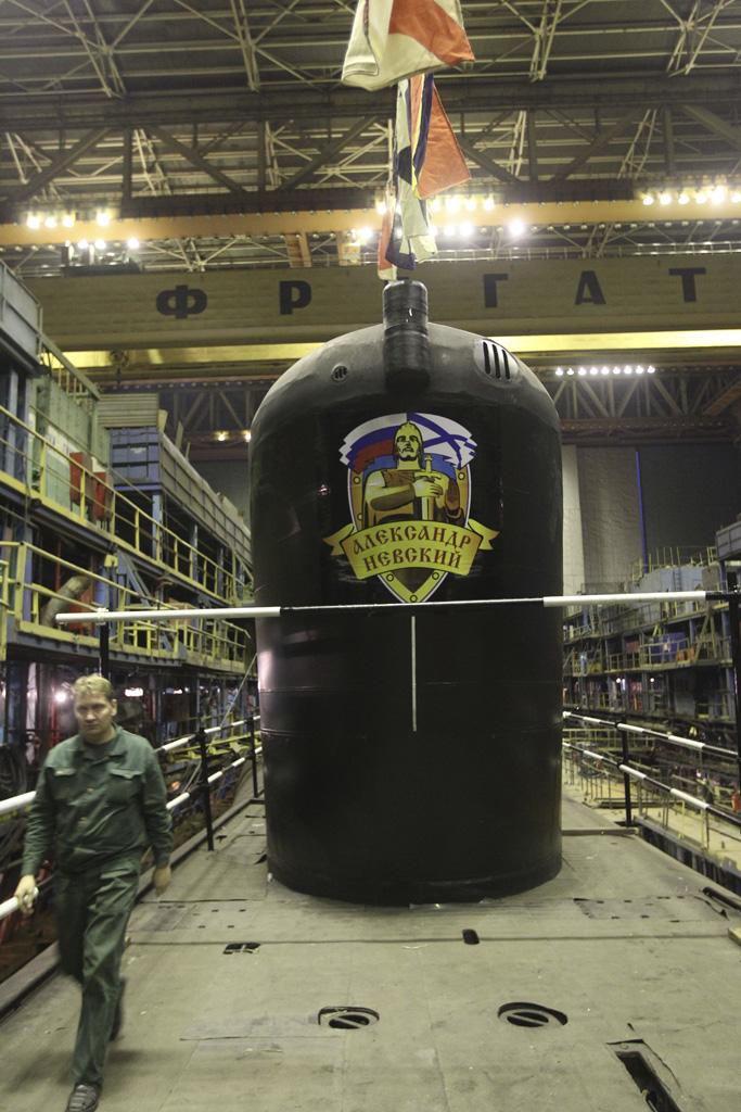 “Sevmash shipbuilding facility”. Launching slipway at the Sevmash shipbuilding facility in Russia's Severodvinsk. The conning tower of the Alexander Nevsky strategic nuclear submarine. The submarine is being prepared for moving into the floating dock.